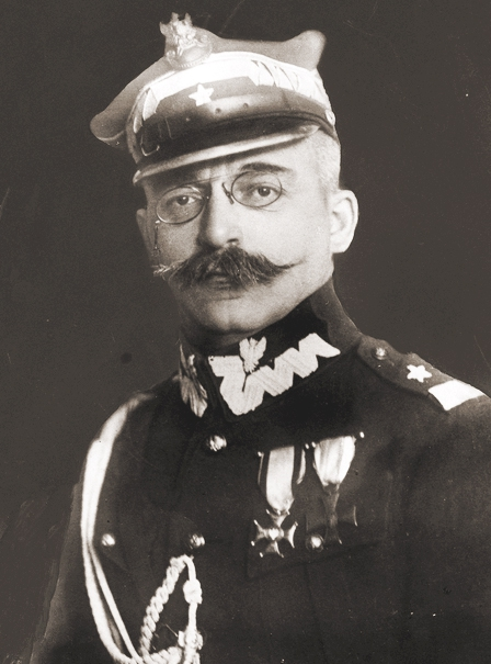 Anatol Kędzierski (1880-1964) – General of the Polish Army